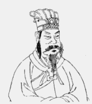 Qing Dynasty woodcut portrait of Emperor Wu of Han.